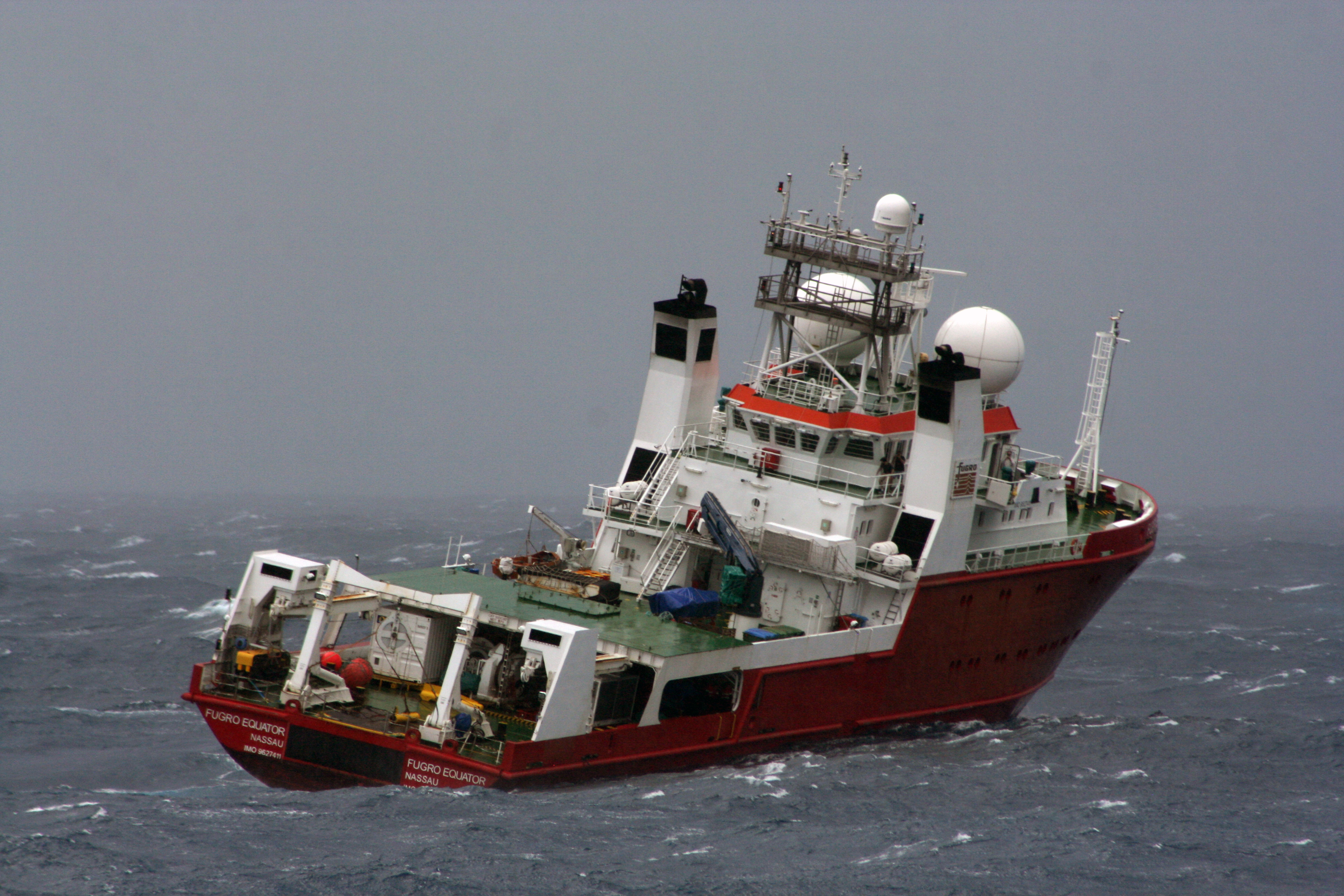 Fugro Equator (IMO-Number:9627411) operating in the search area in the southern Indian Ocean